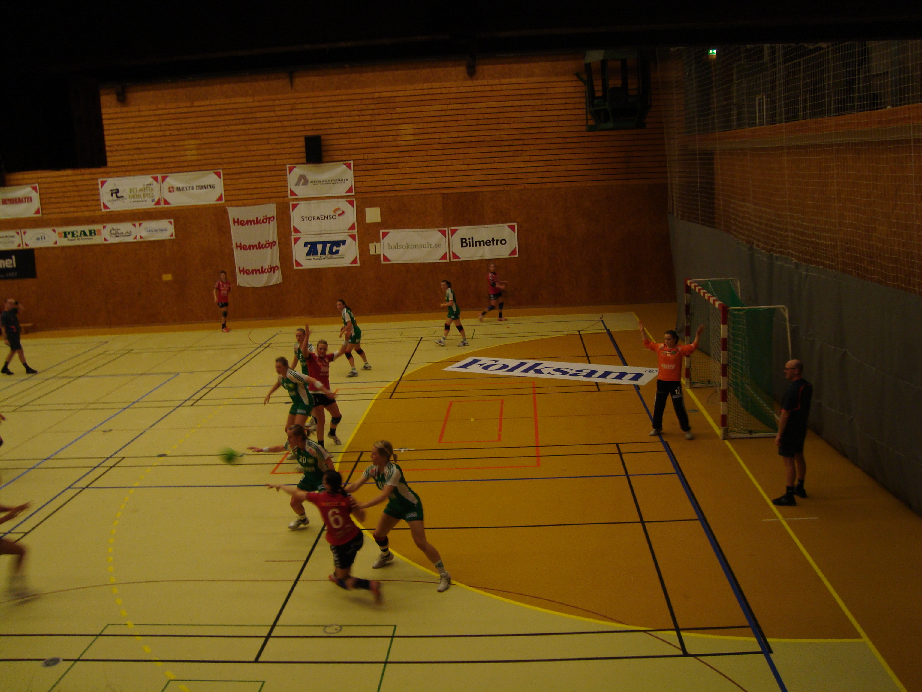 AvestaBrovallen HF vs Skuru IK in Kopparhallen, Avesta, Sweden.